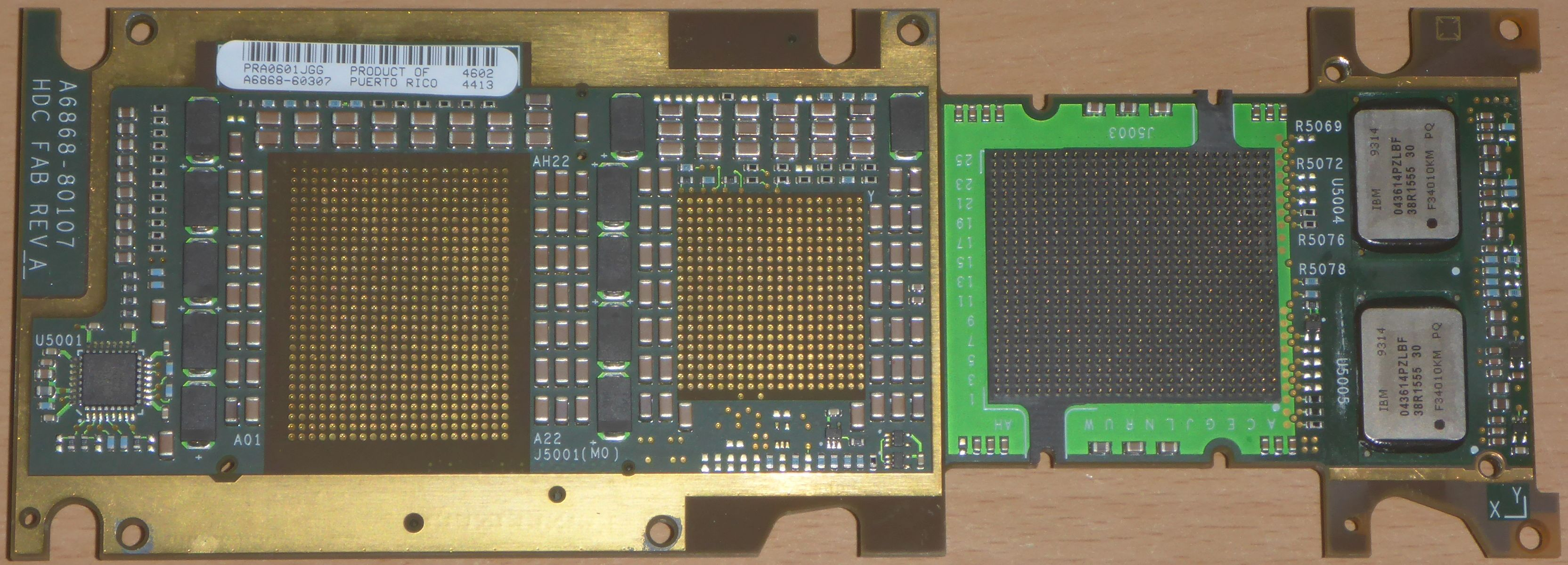 Bottom of an Itanium 2 mx2 module.